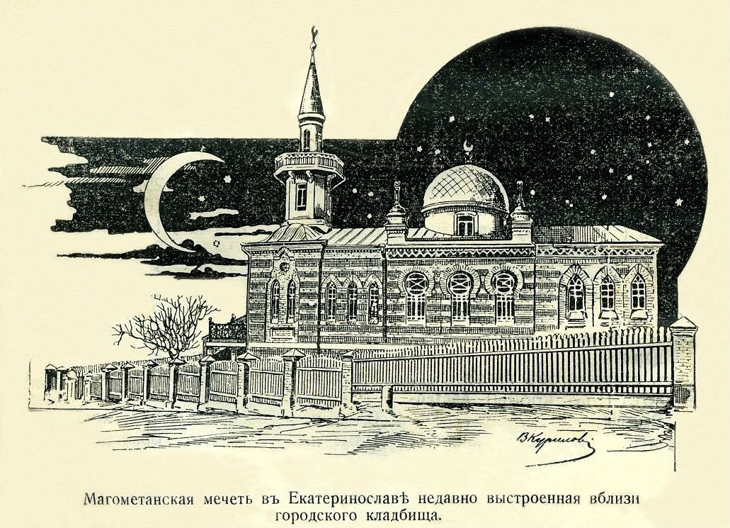 Екатеринославъ. Храмы/ Начала 20 века.